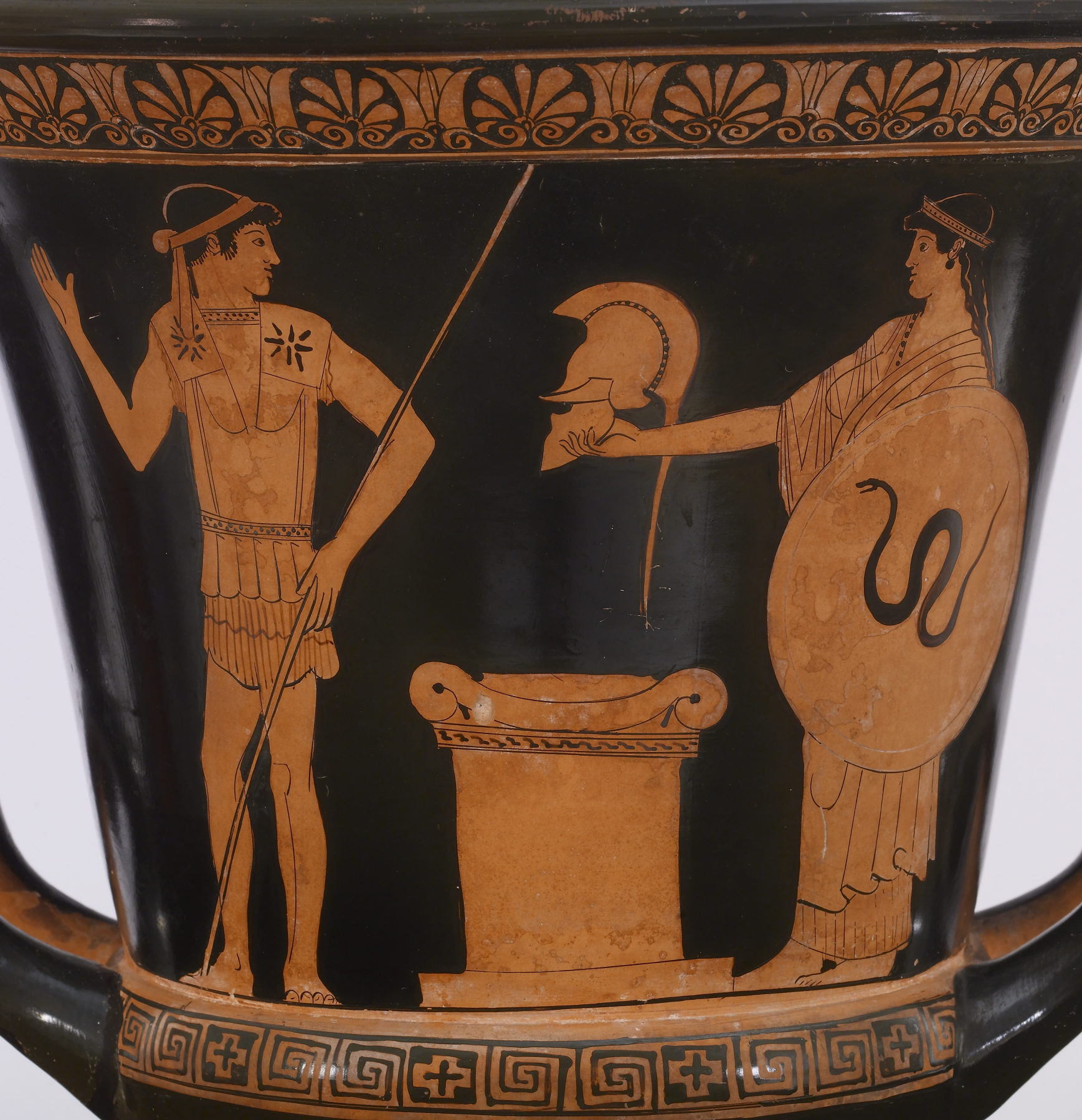 The scene on this "krater" depicts another milestone in the life of a young man. At the culmination of years of training, a warrior stands beside the family altar preparing to leave for war. He wears a short tunic under a "cuirass" (breastplate) and holds his spear in his left hand. A young woman on the right readies his shield and stretches out her hand to pass his helmet across the altar. A "krater" is a large, wide-mouth vessel used for mixing water and wine; if the handles are in the low position seen here, it is called a "calyx krater."